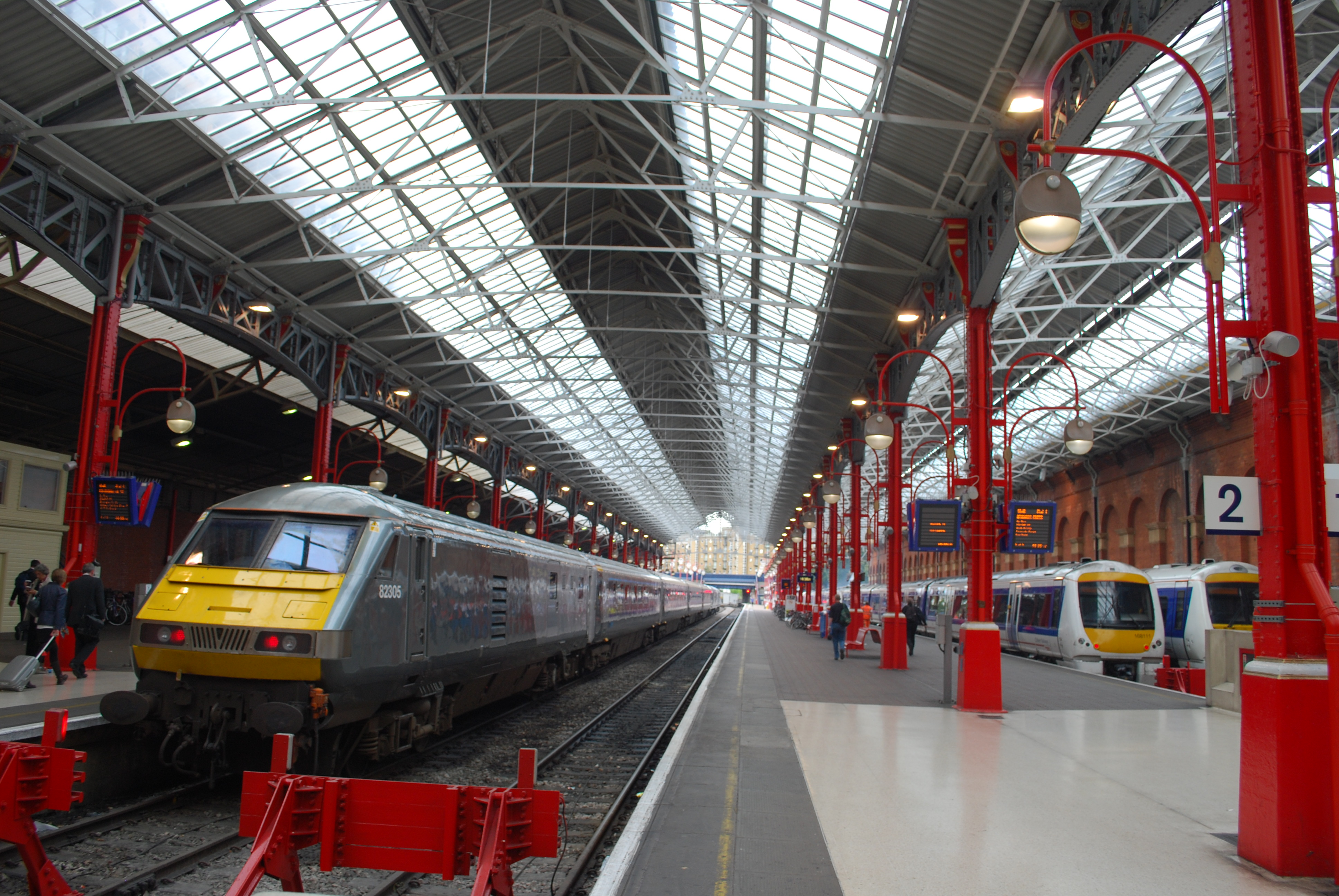 The trainshed at Marylebone station, 09/12.